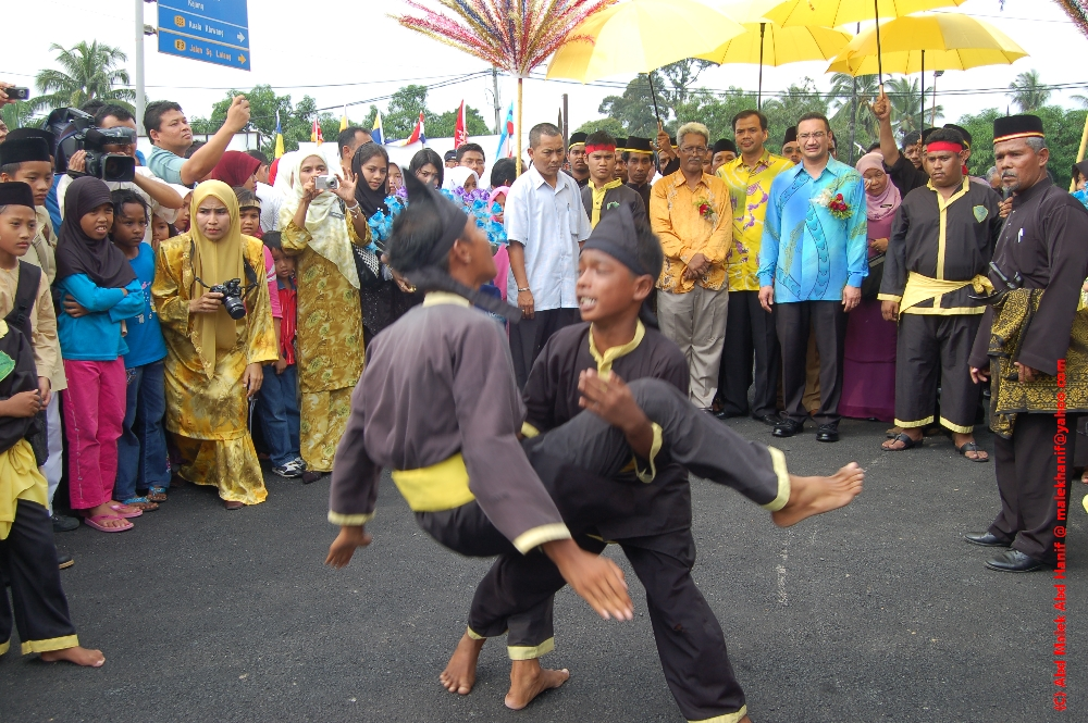 Malay self defence